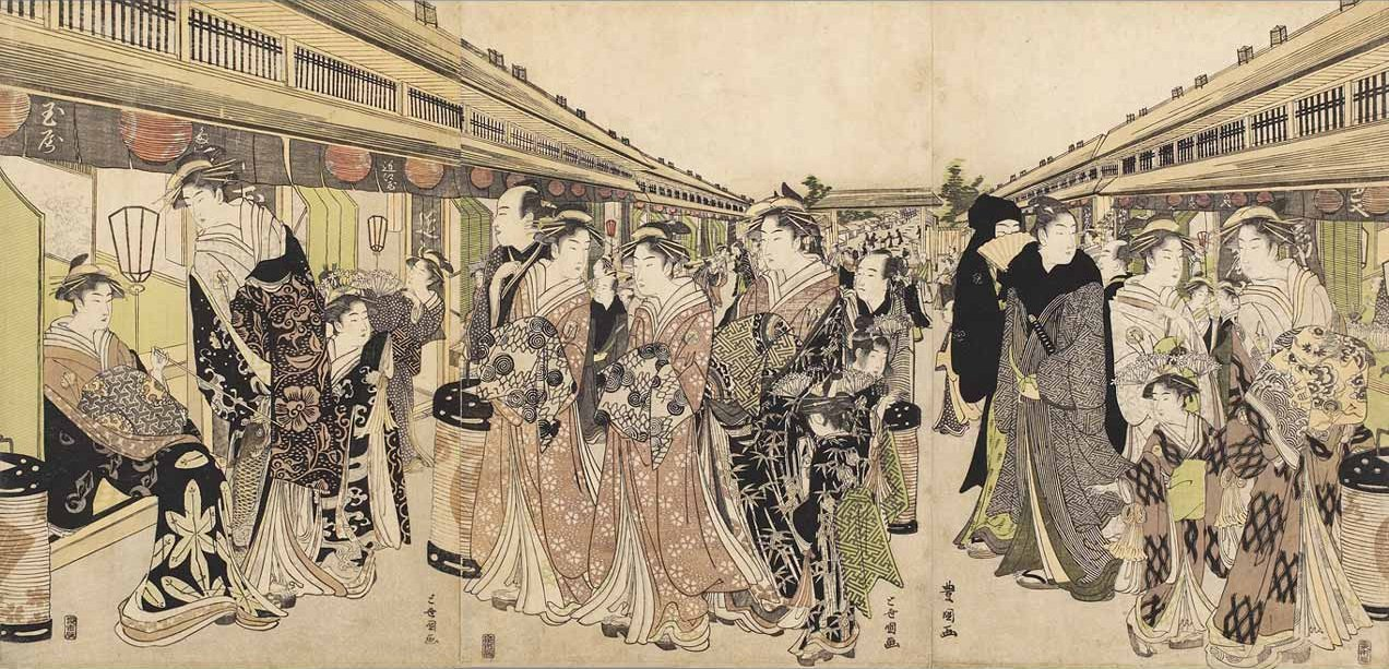 Utagawa Toyokuni I 初代歌川豊国 (1769-1825) Courtesans Promenading on the Naka-no-chō in the Shin-Yoshiwara Japan, Edo period (1615-1868), c. 1795 Woodblock print; ink and color on paper Honolulu Museum of Art Gift of James A. Michener, 1955 (13703a-c)